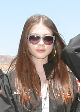 Michelle Trachtenberg on June 2008.